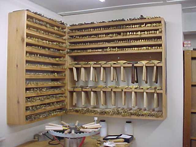 Author: Blake Smith